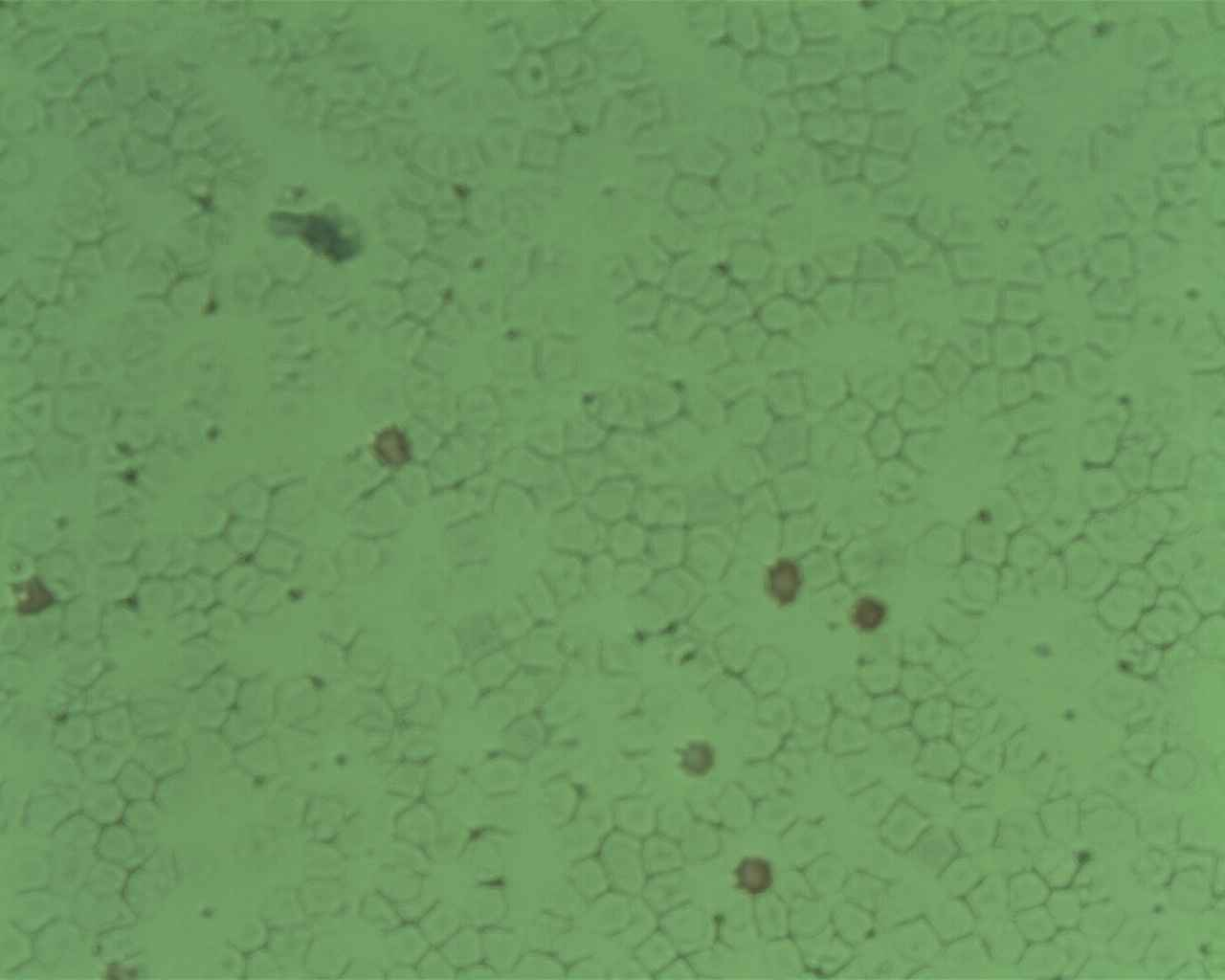 Kleihauer–Betke (KB) positive test showing pink-stained foetal red cells. It is used to measure the amount of foetal haemoglobin containing red cells that entered maternal circulation. It is performed on Rhesus (D) negative mothers to determine the required dose of prophylactic Rho (D) immune globulin (RhIg) to prevent sensitization and formation of immune Rh (D) antibodies that can potentially cause haemolytic disease of the foetus and newborn in subsequent Rh(D) positive babies.